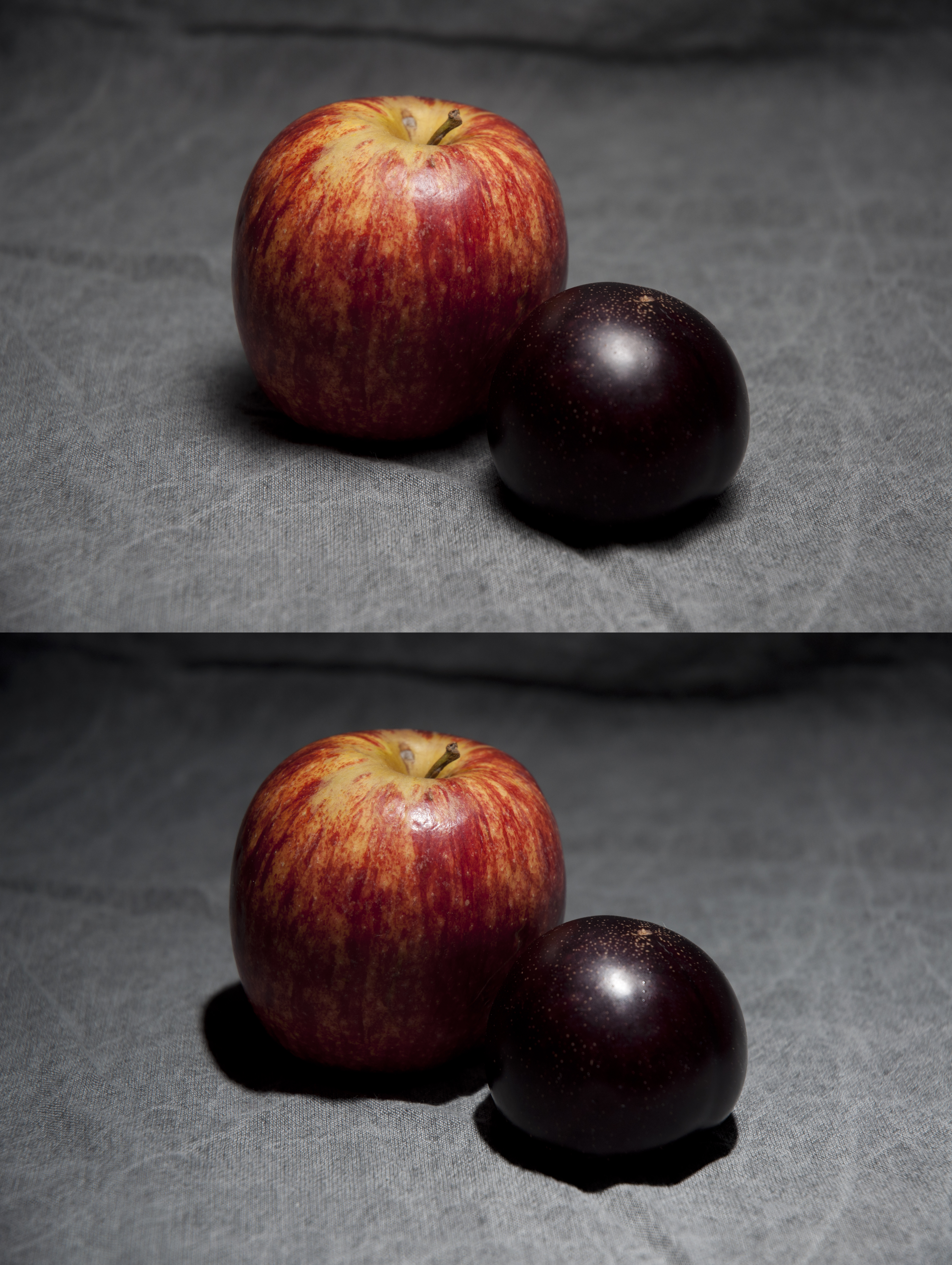 Comparison between a photograph of fruit taken with a photographic softbox (top) and a flash (bottom) Contents 1 Licensing 2 Related links (internal) 3 Licensing 4 Original upload log Licensing Related links (internal) See also: Soft box